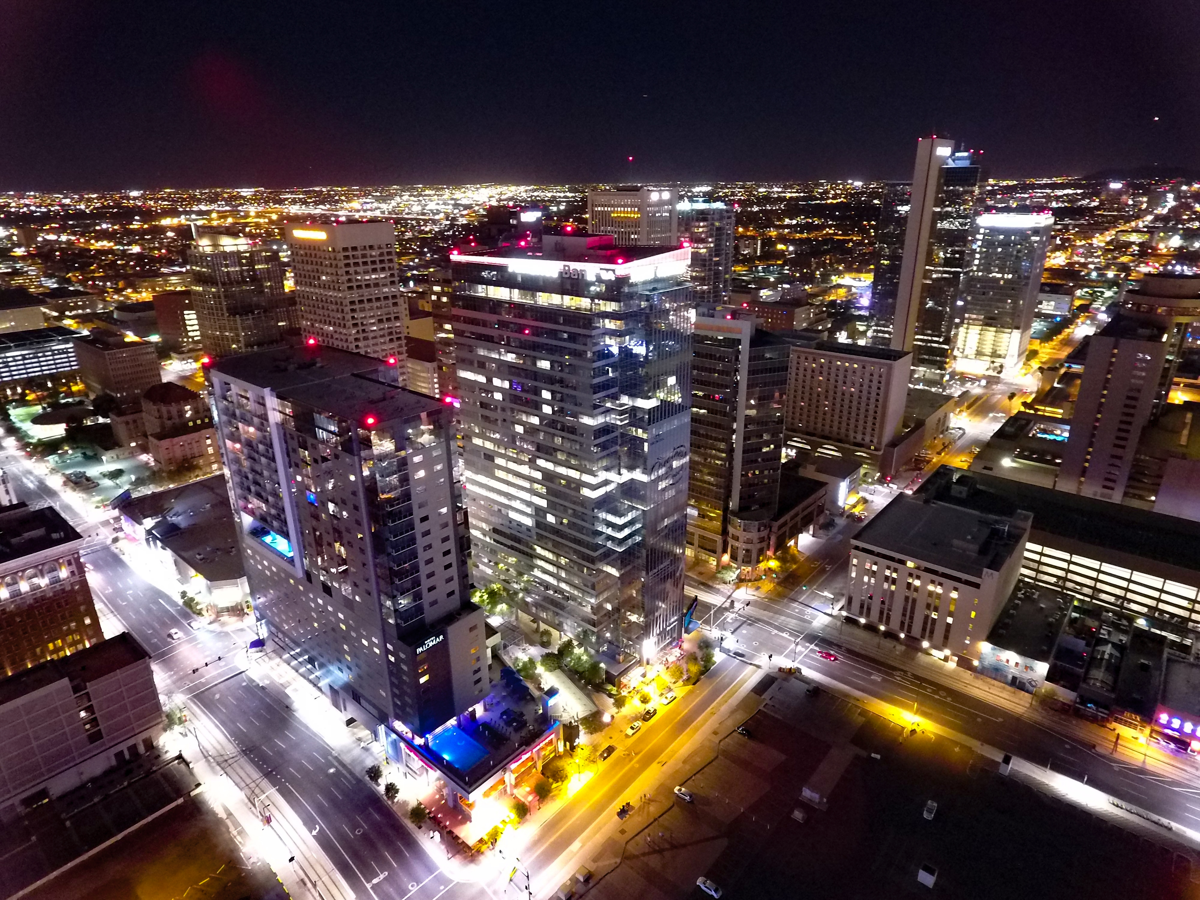 The Hotel Palomar at Night